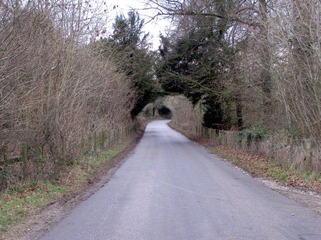 Longwood Road, Lane End Down Looking along Longwood Road, towards Owslebury, with Ganderdown Wood on the right.